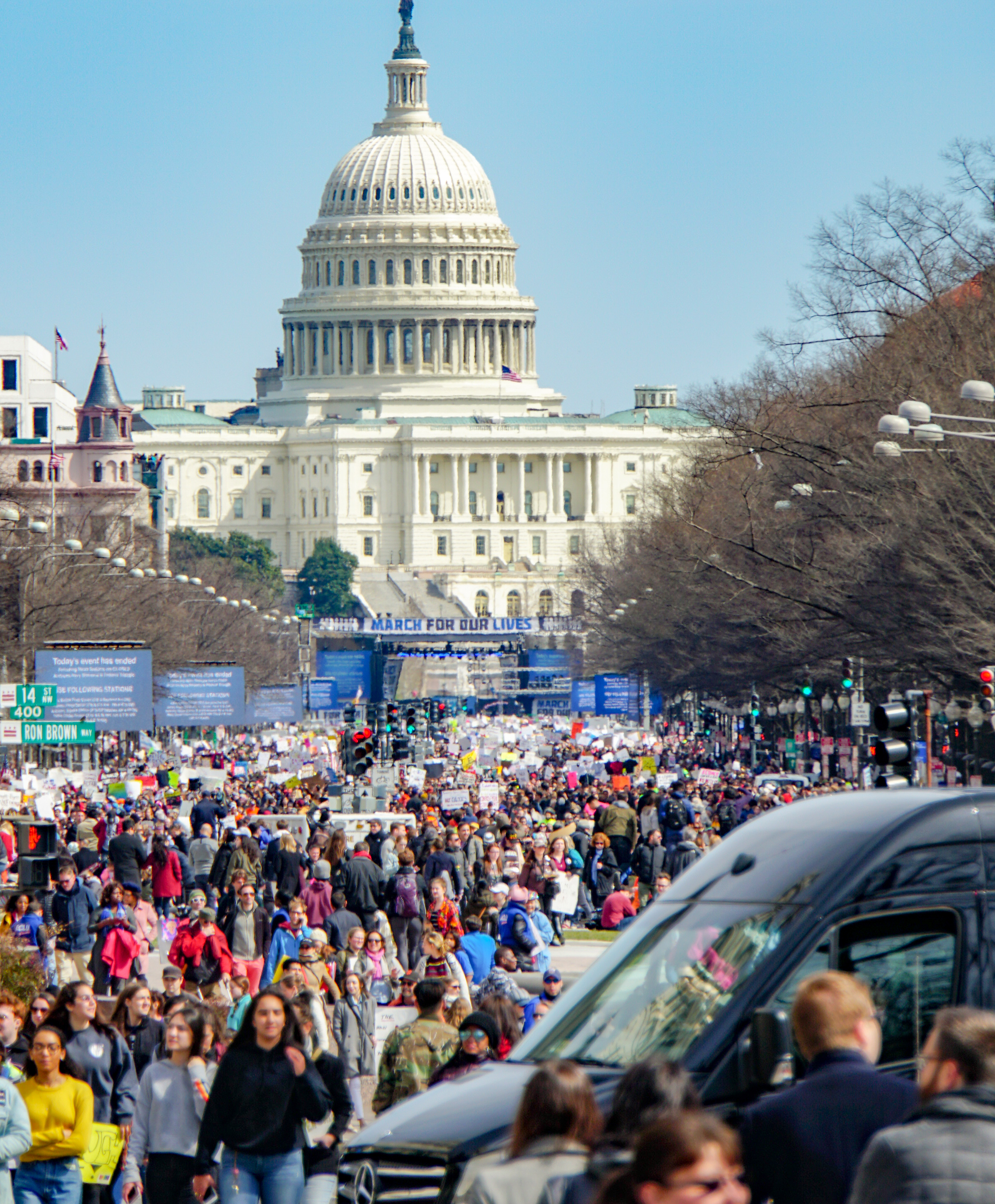 2018.03.24 March for Our Lives, Washington, DC USA 4646